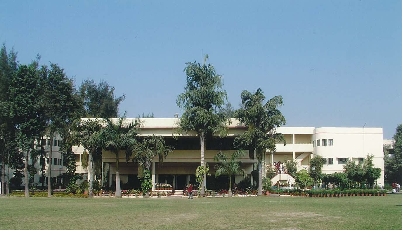 school kanpur